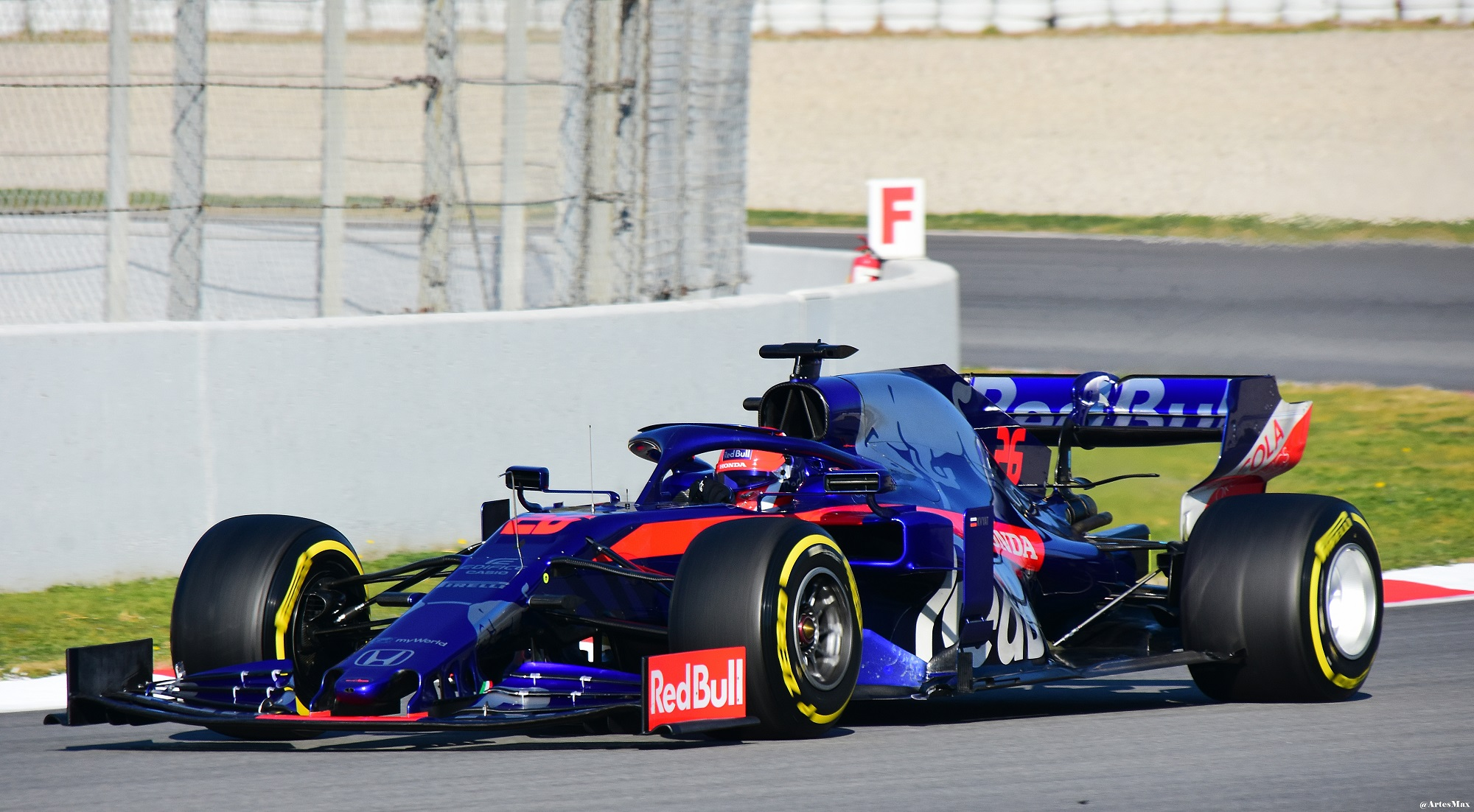 2019 Formula One tests Barcelona, Kvyat.